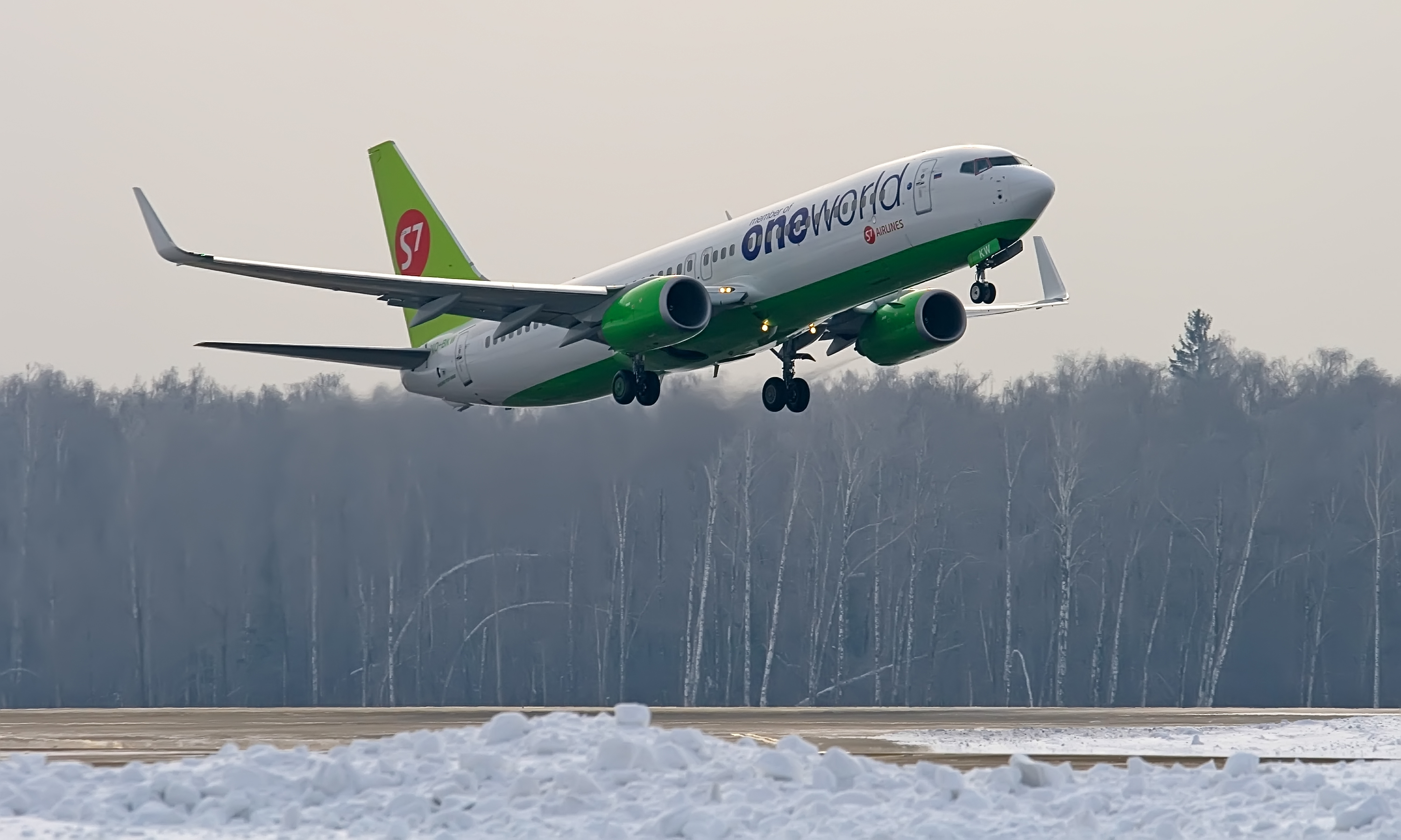 Boeing 737-800 of S7 Airlines at Domodedovo International Airport